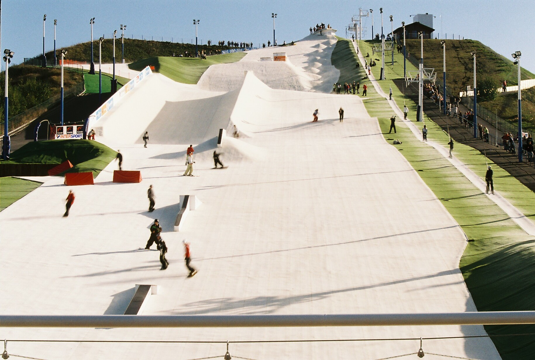 The view from the ski lodge at Noeux-les-Mine's Stadt de Glise looking up the slope fitted with the Snowflex snowsports system.